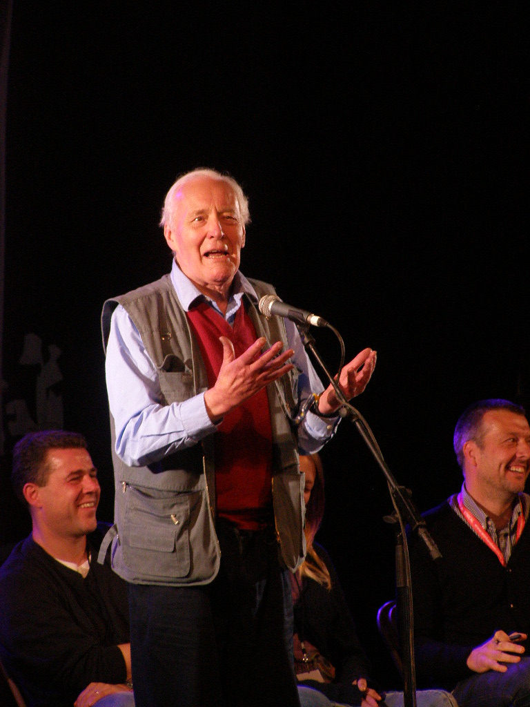 Tony Benn on the Left Field Stage at the Glastonbury Festival.